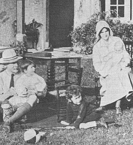 Lieut. Gen. Robert Stephenson Smyth Baden-Powell (1857–1941) with his wife Olave Baden-Powell (1889–1977) and their three children in 1917, at home near Horley in Surrey, England; Left–to–right: Heather (1915–1986), age 2 Peter (1913–1962), age 4 Betty (1917–2004), newborn A widely circulated photo by an unknown author in 1917, previously made available to the public before 1938. Various published reference works consulted do not identify the author.